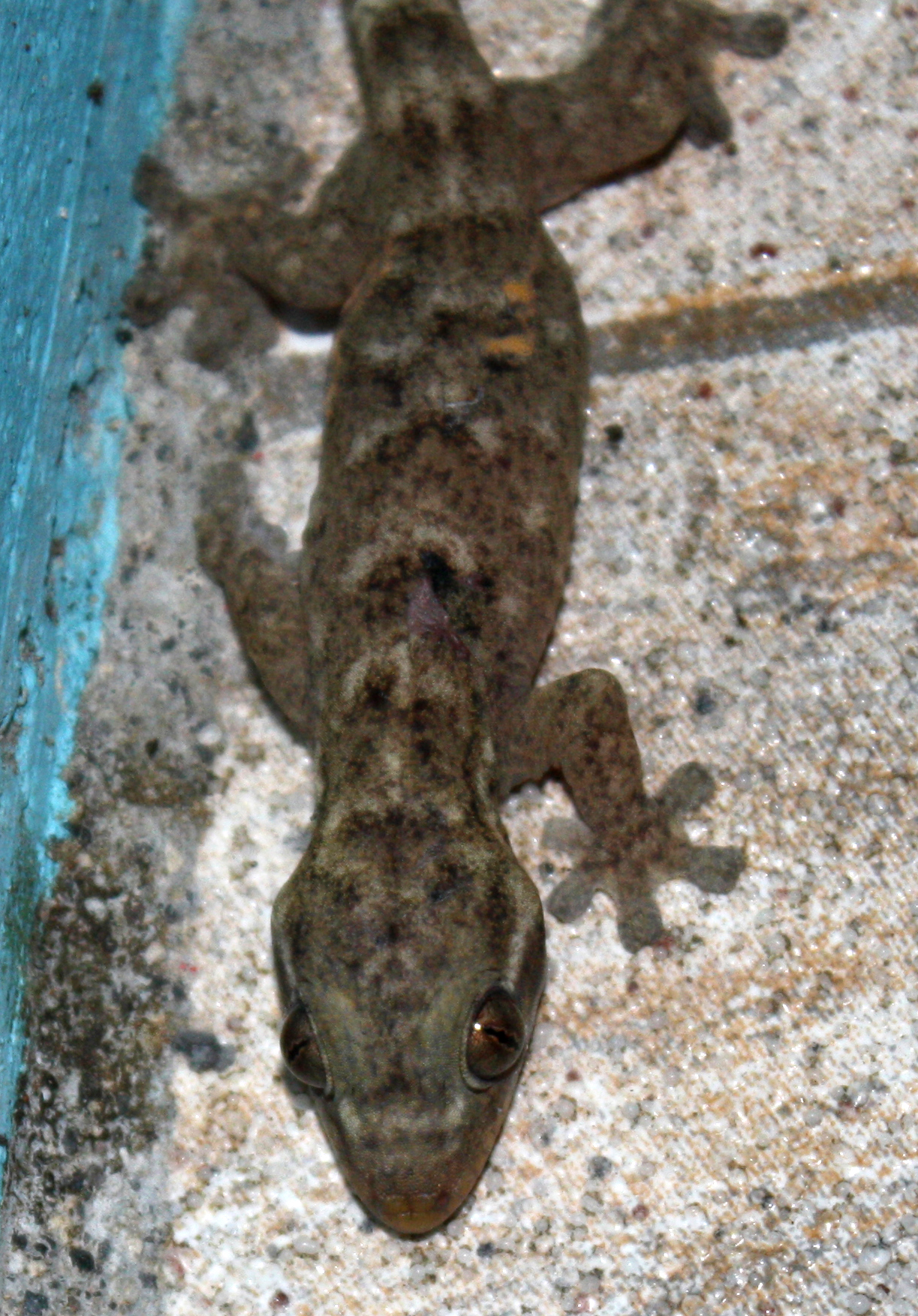 Tropical House Gecko (Hemidactylus mabouia). Coulibistrie, Dominica.